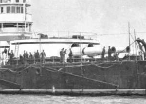 Photograph showing 16.25 inch gun turret of British battleship HMS Sans Pareil. See Image:HMSSansPareil1897.jpg for full image.